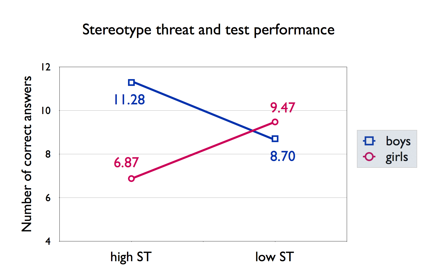 Stereotype threat according to Osborne (2007)